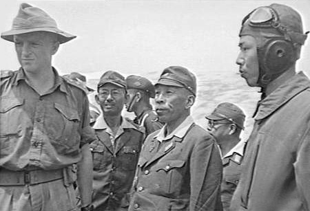 Labuan Island, 1945-09-10, The Japanese surrender party standing by aircraft, at a surrender ceremony held at Headquarters 9th Division, where Major General G. F. Wootten, general officer commanding, 9th division, accepted the surrender of all Japanese forces from Lieutenant General Masao Baba, supreme commander Japanese forces in Borneo and commander 37th Japanese Army.